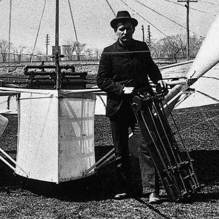 Gustave Whitehead and his 1901 monoplane Number 21 Category:1901 Whitehead in his working clothes. Histogram and gamma-corrected (by me) version of photo which is more than 100 years old